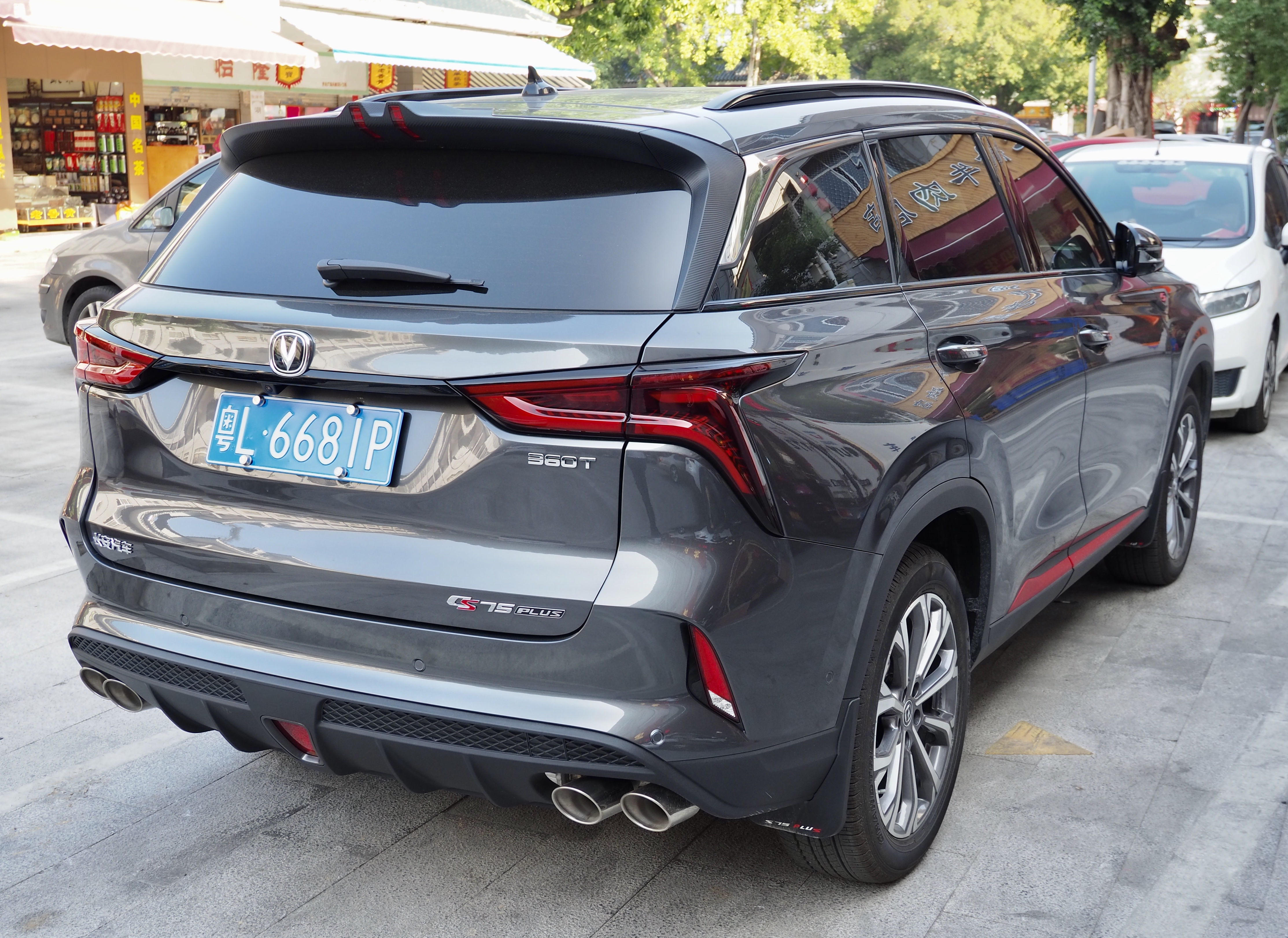 A 2019 Chang'an CS75 Plus photographed in Chaozhou, Guangdong Province, China. 中文（中国大陆）: 一辆2019年的长安CS75 Plus，拍摄于中国广东省潮州市。